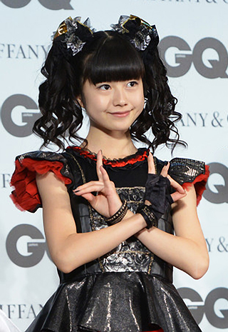 Yuimetal at "GQ Men of the Year" ceremony in Tokyo in 2015.